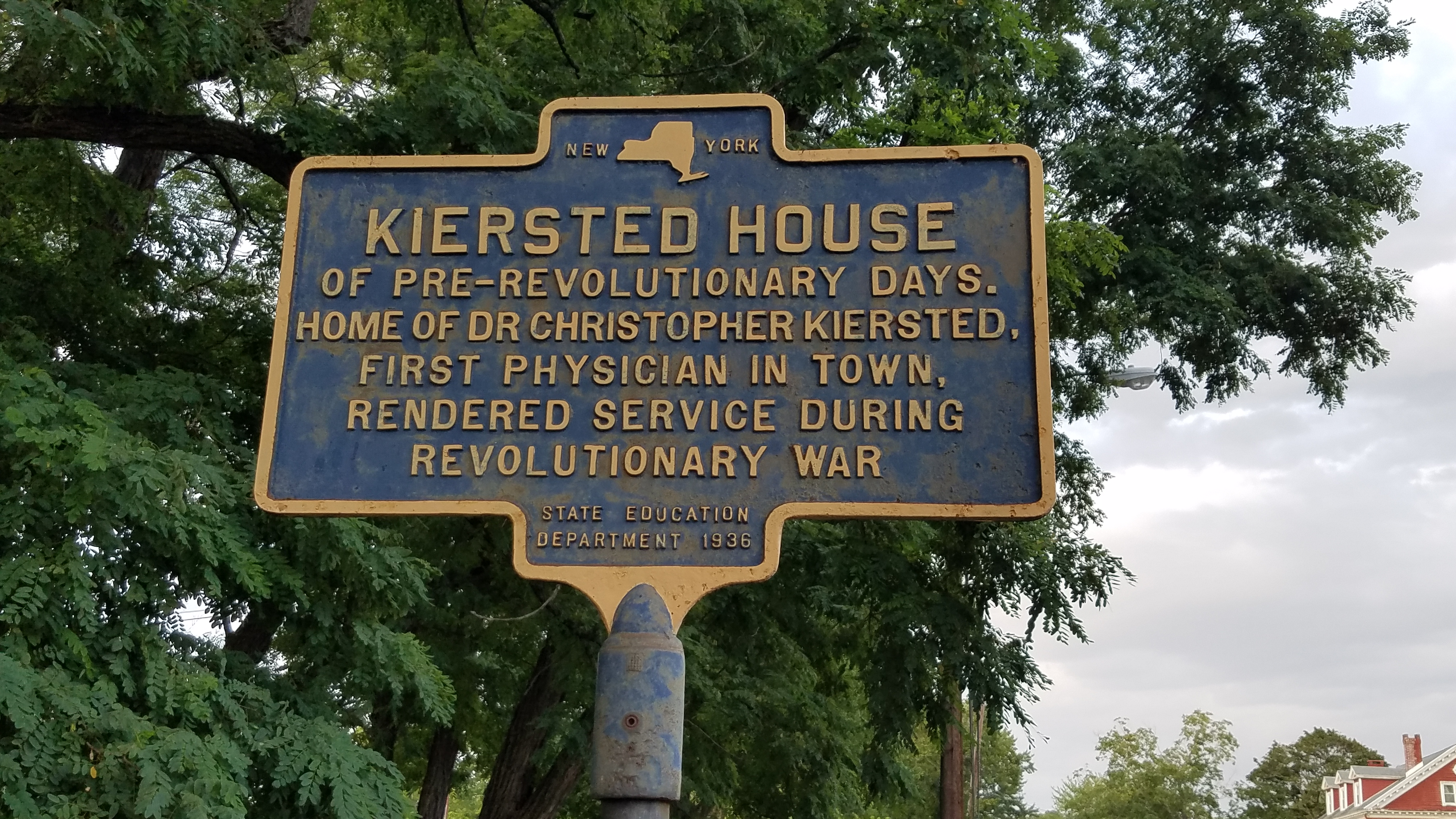 New York State historic marker for the Kiersted House in Saugerties, New York.